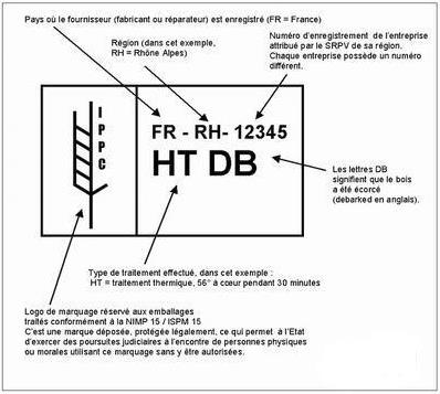 ISPM 15 markings on a EUR-pallet